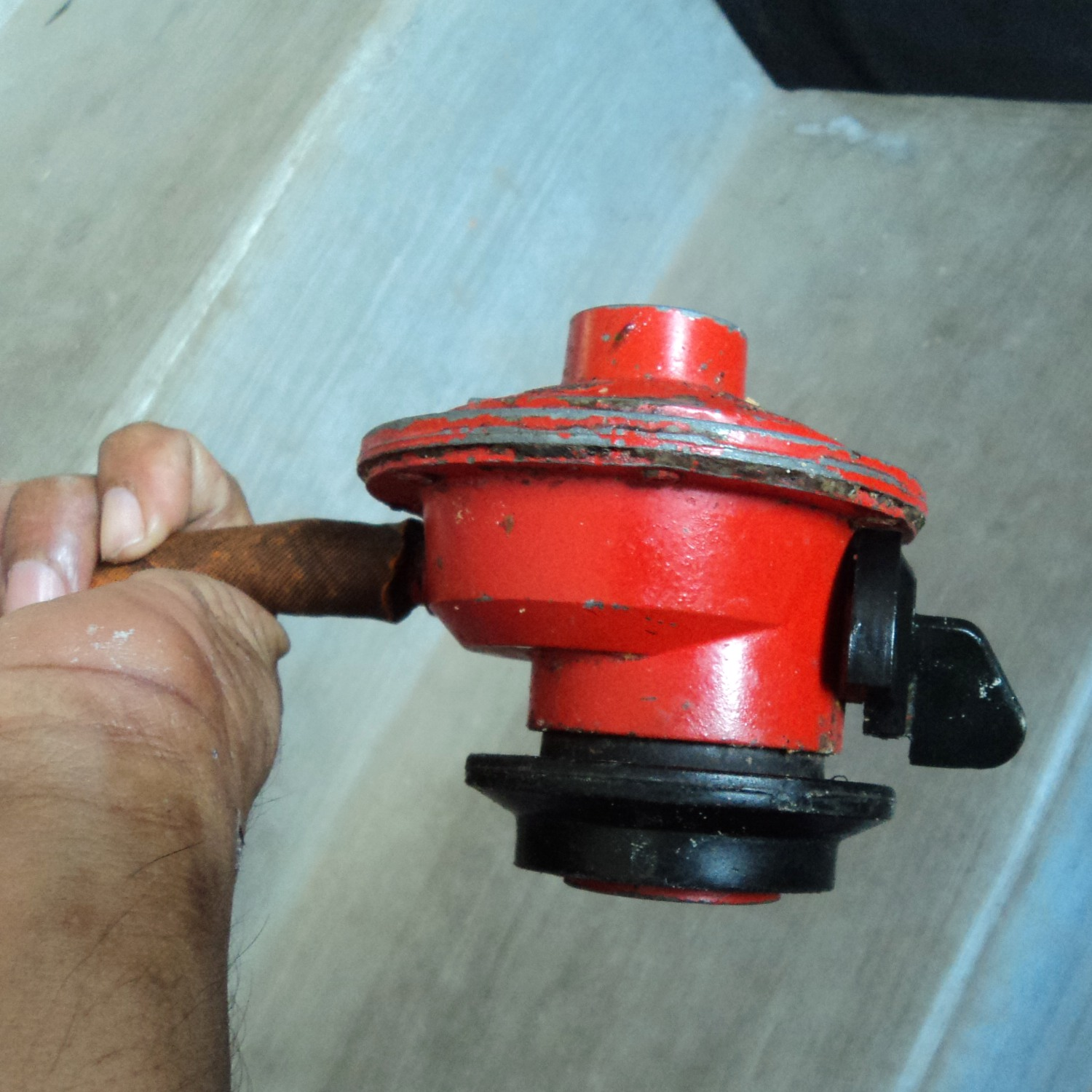 the regulator which is used to mix air with LPG and supplies the gas to the stove protectivelly, Tamil Nadu, India